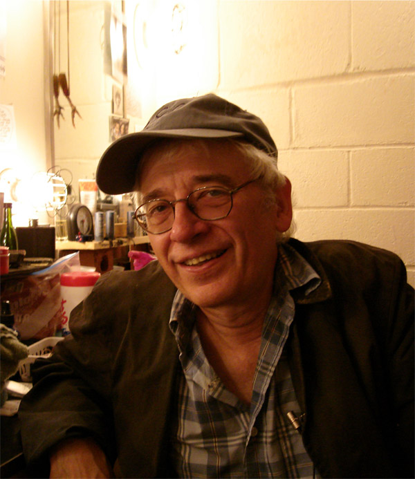 Austin Pendleton backstage at the Delacorte Theatre, New York City. August, 2006. (Photo by W. Stuart McDowell)